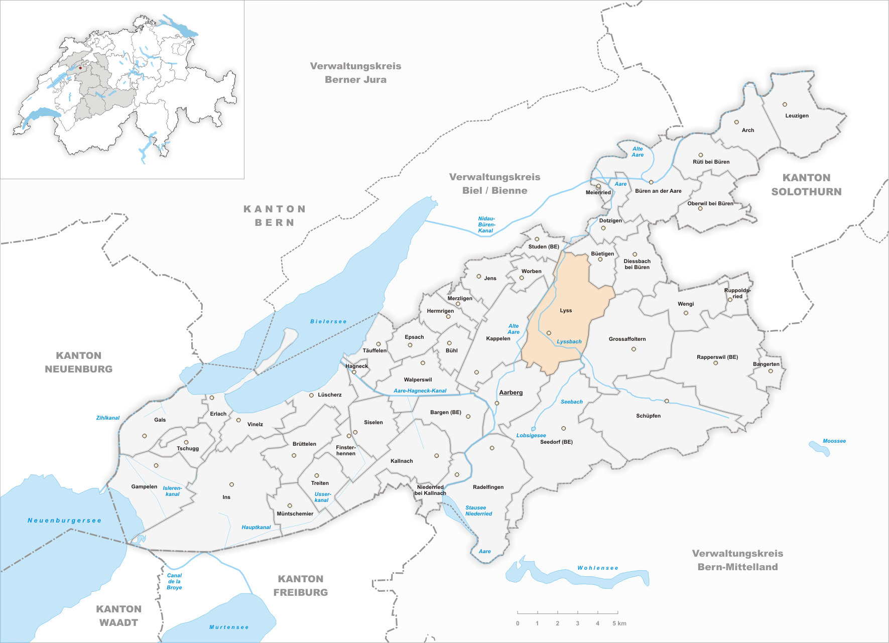 Municipality Lyss